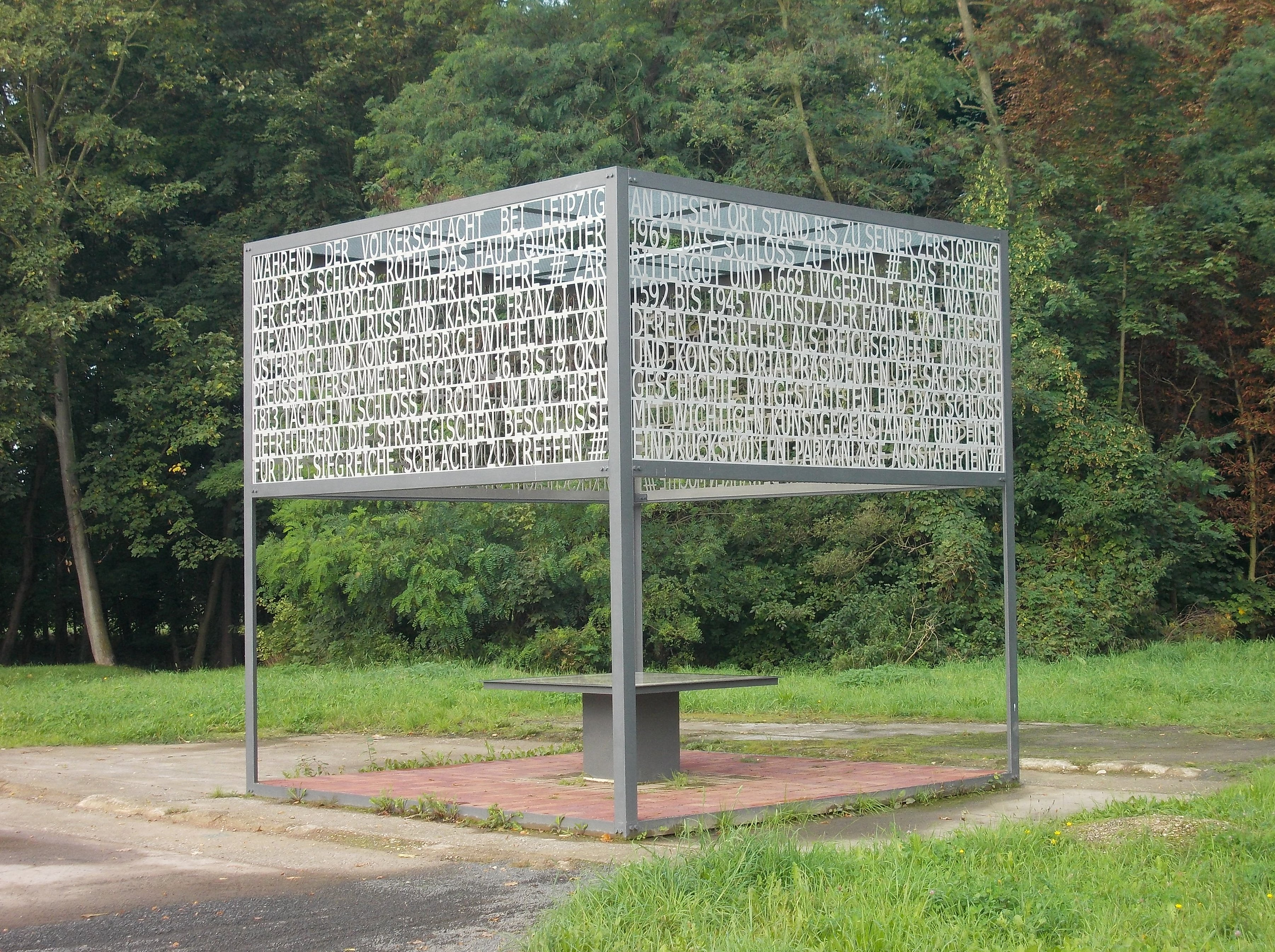 Memorial to Rötha Castle, destroyed in 1969 (Rötha, Leipzig district, Saxony)